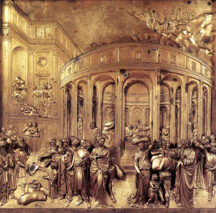 Story of Joseph (Gate of Paradise, Battistero di San Giovanni, Florence)